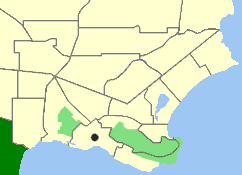 Map of Robinson within Albany